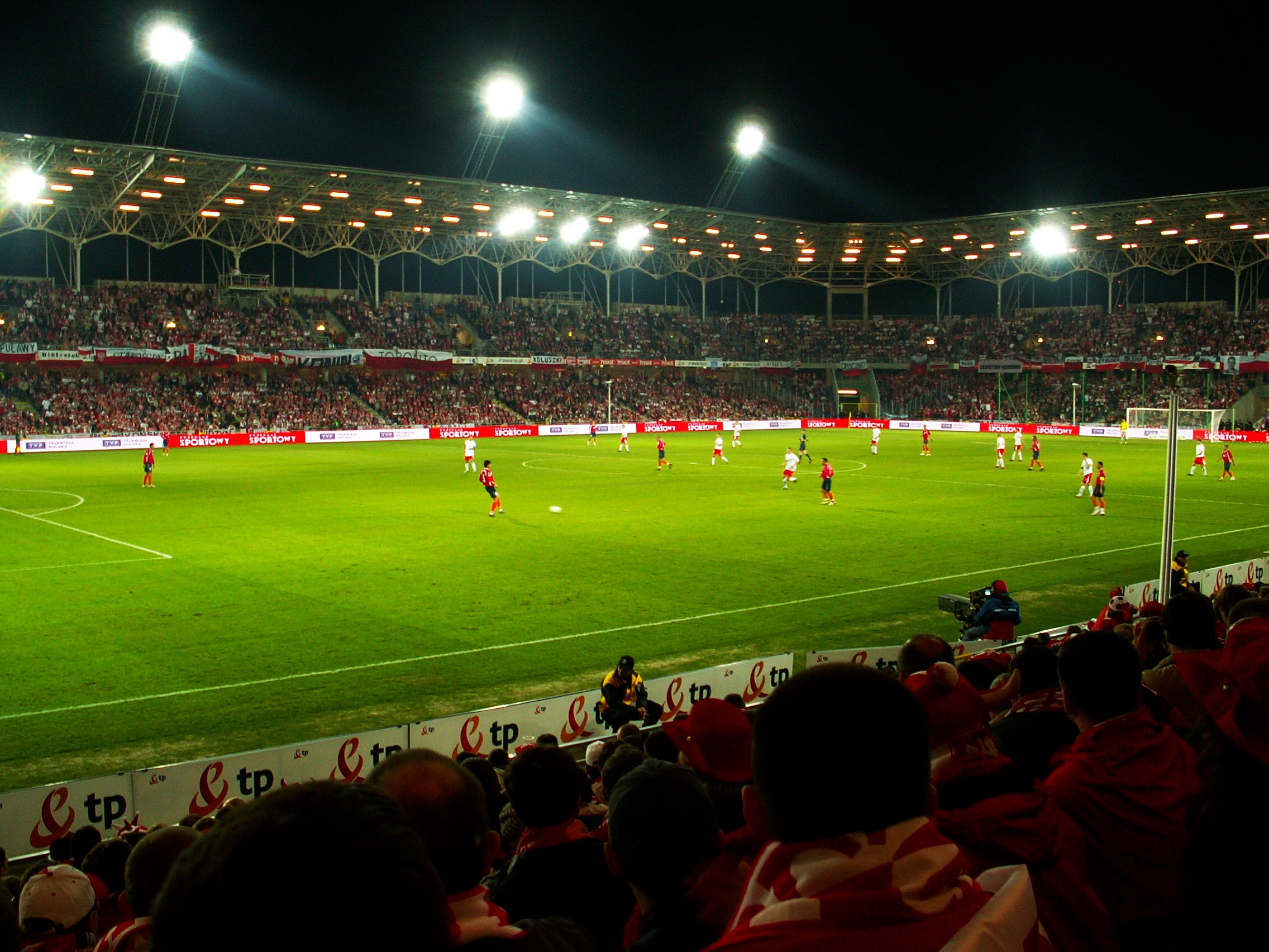 UEFA Euro 2008 qualifying - Poland vs Armenia in Kielce (Poland)